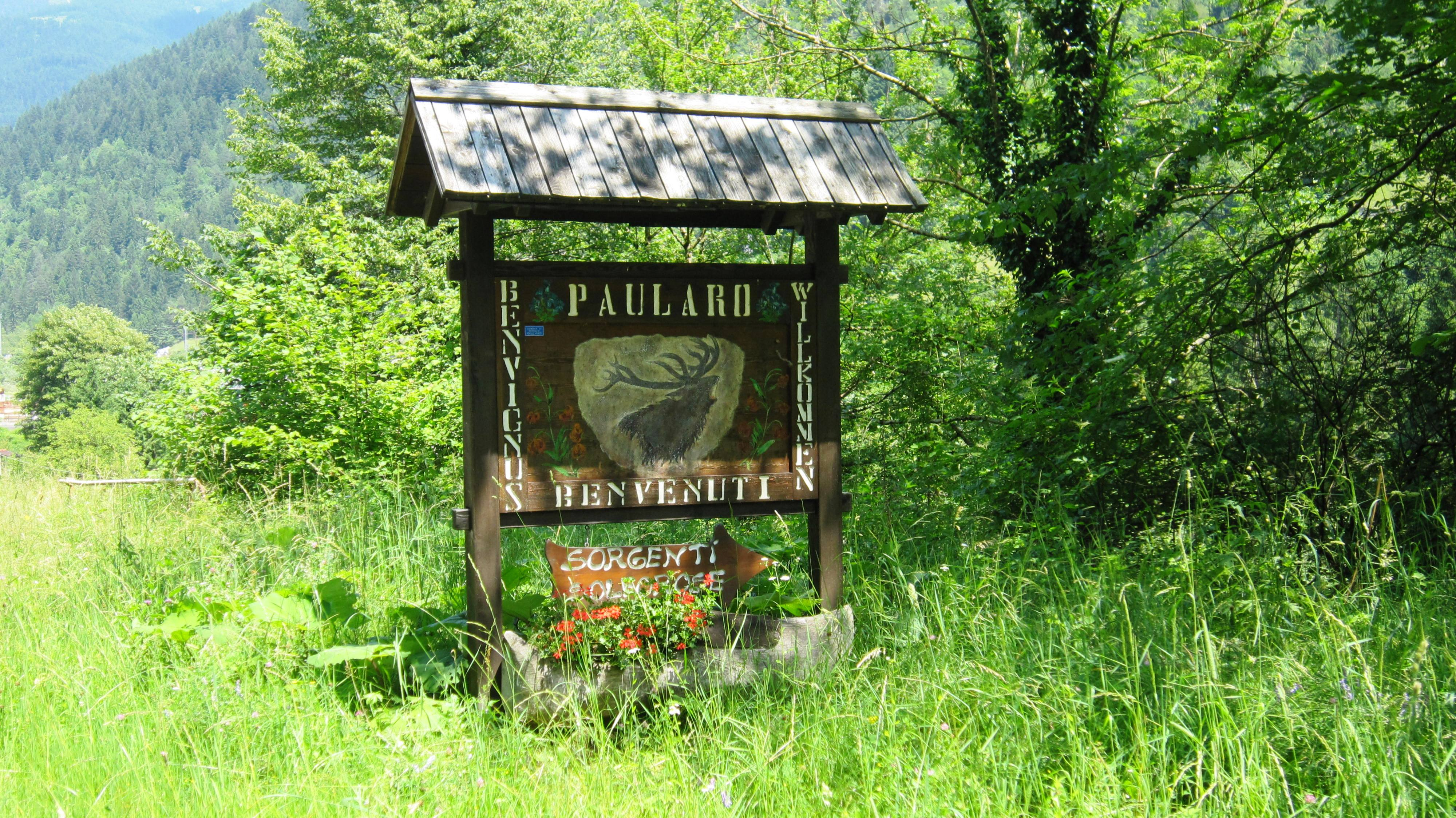 cartello ingresso paese